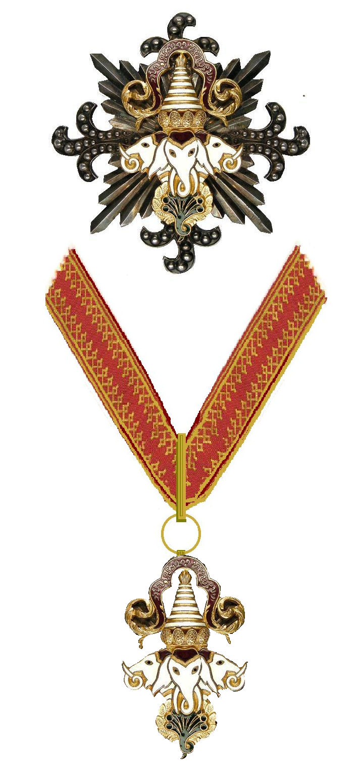 Ordre des Millions des Éléphants et le Paralso Blanc de Laos Order of the Millions of Elephants and the White Umbrella